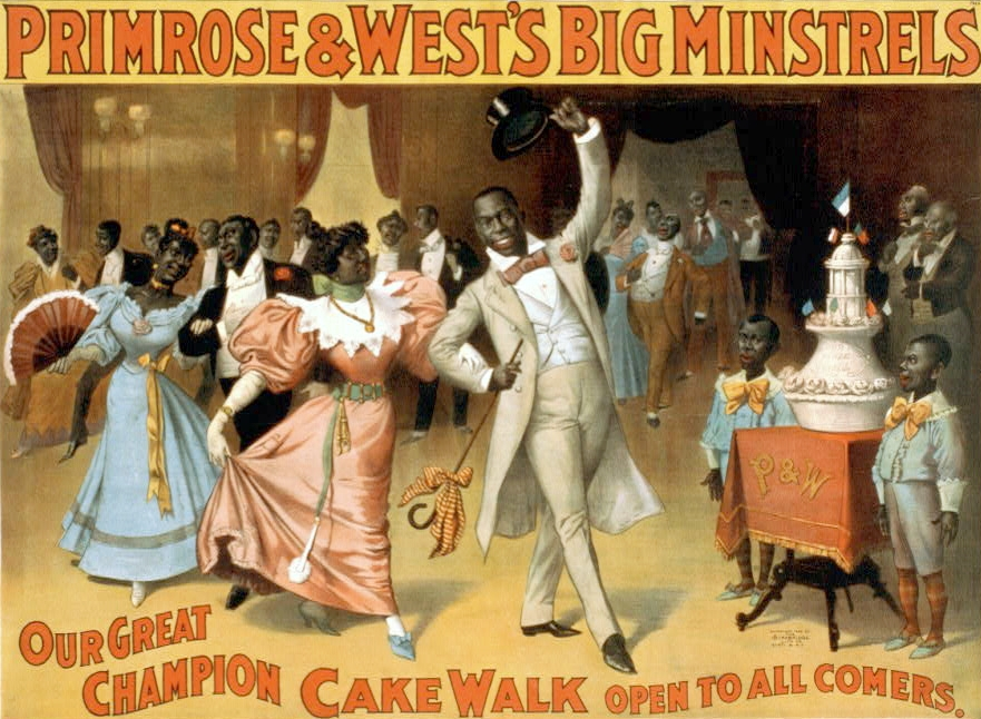 "Primrose & West's Big Minstrels. Our great champion cake walk, open to all comers."